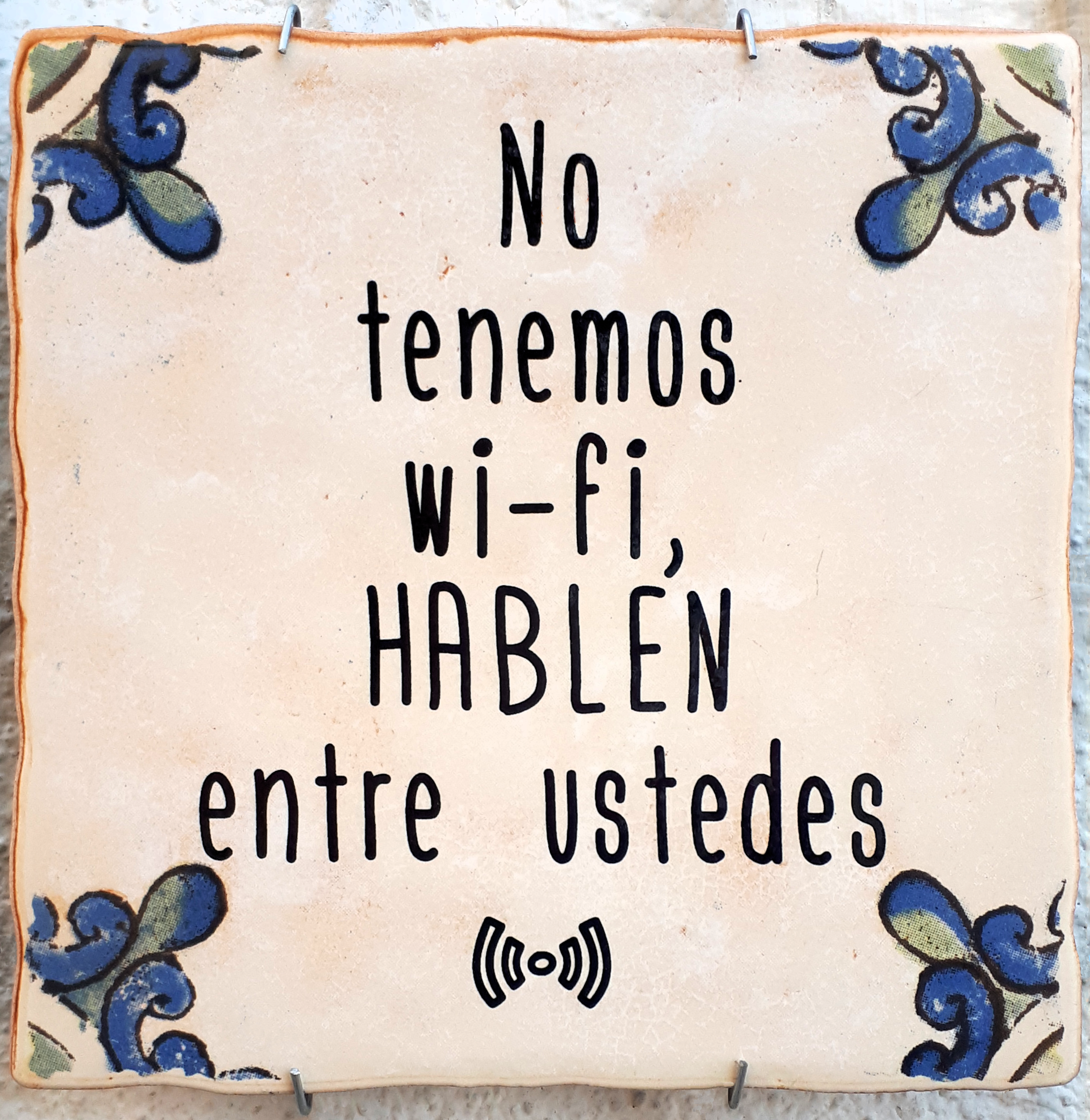 They does not offer Wi-Fi services. This was done to let customers socialize with each other.